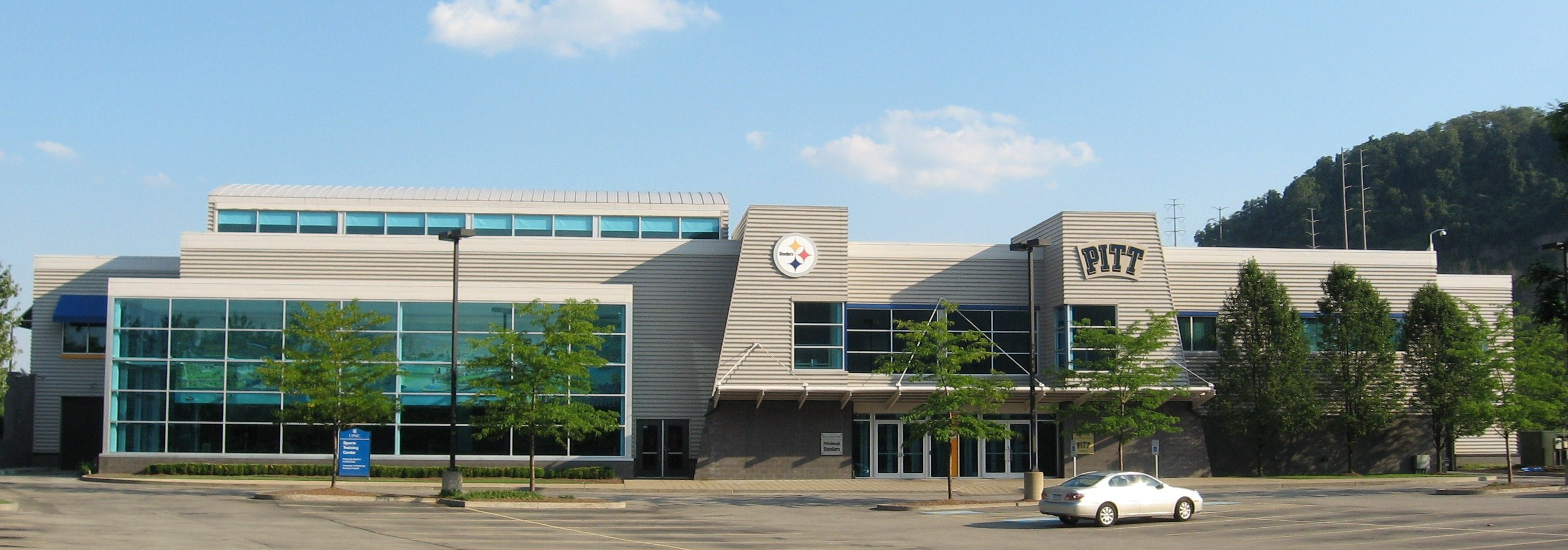 UPMC Sports Performance Complex, practice football field for the Pittsburgh Steelers and Pitt Panthers 40°25′29.3″N 79°57′35.5″W / 40.424806°N 79.959861°W